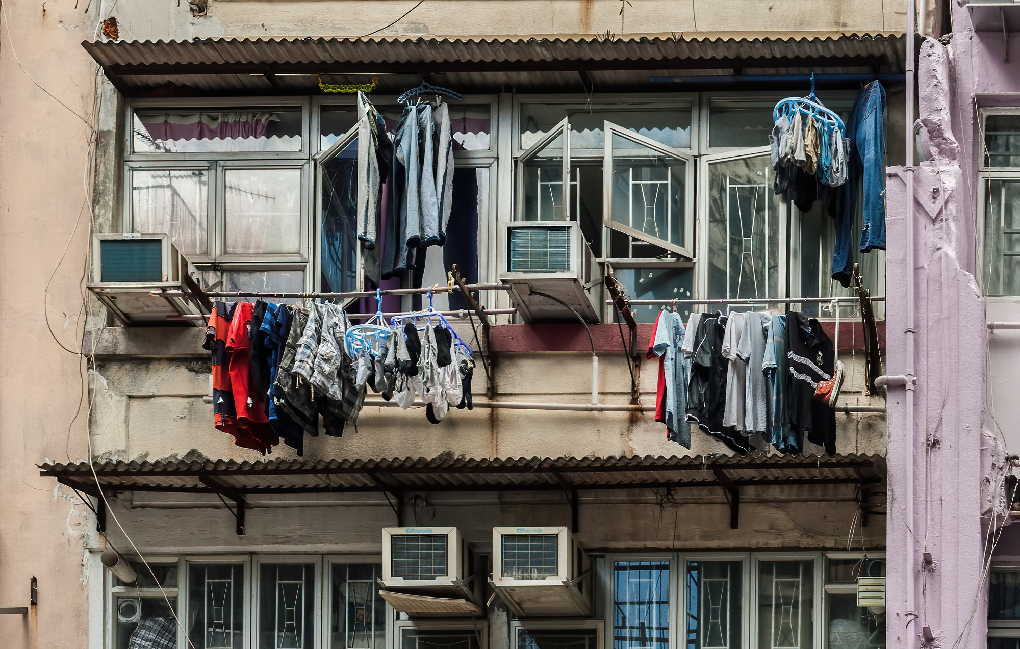 Building Facade in Hong Kong